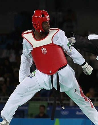 Taekwondo at the 2016 Summer Olympics - 80 kg